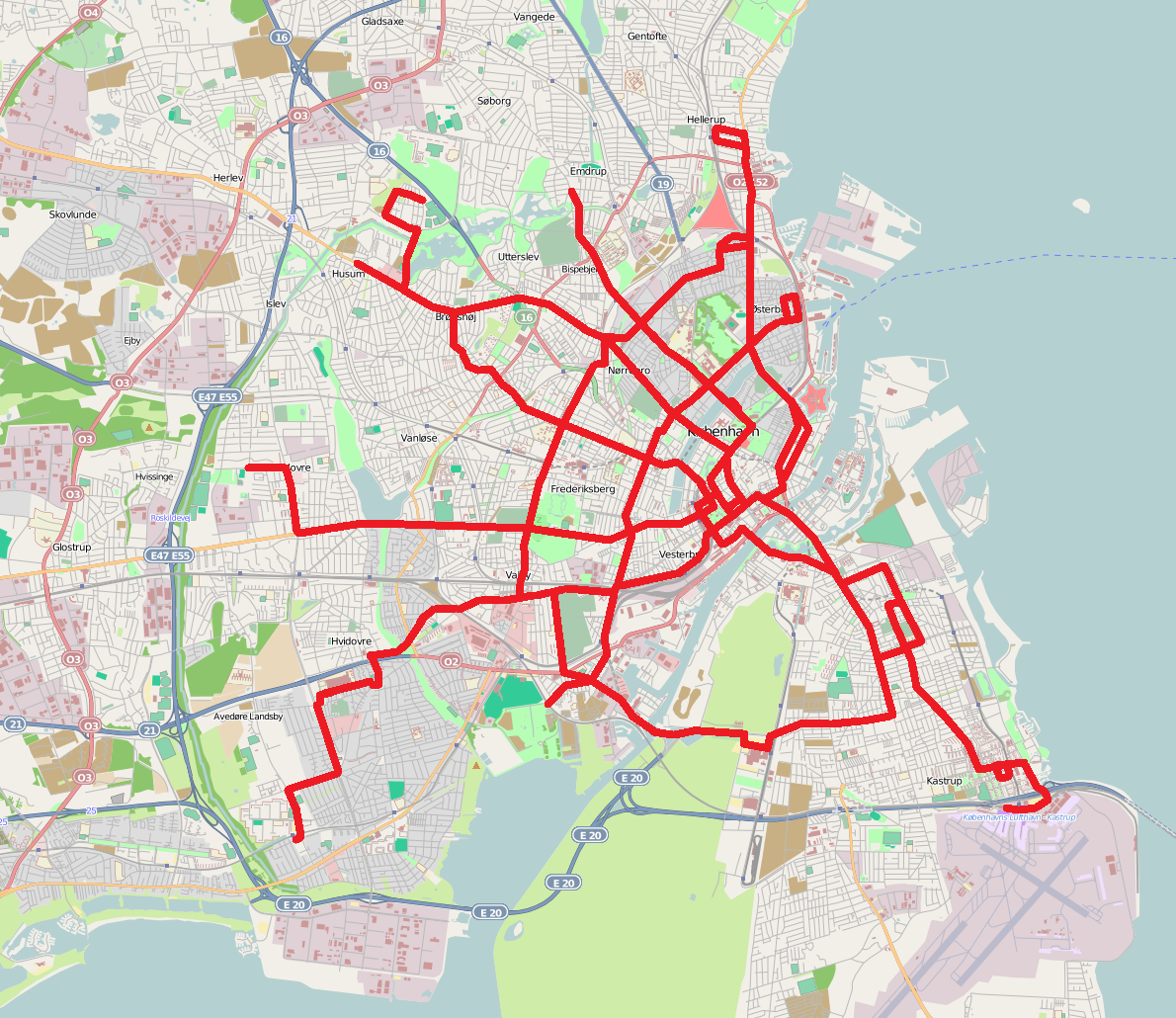 Map of Copenhagen with A-bus lines as of december 2003 in red.